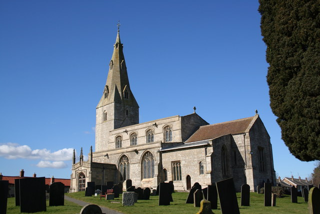 St Peter's parish church, Ropsley, Lincolnshire, seen from the southeast